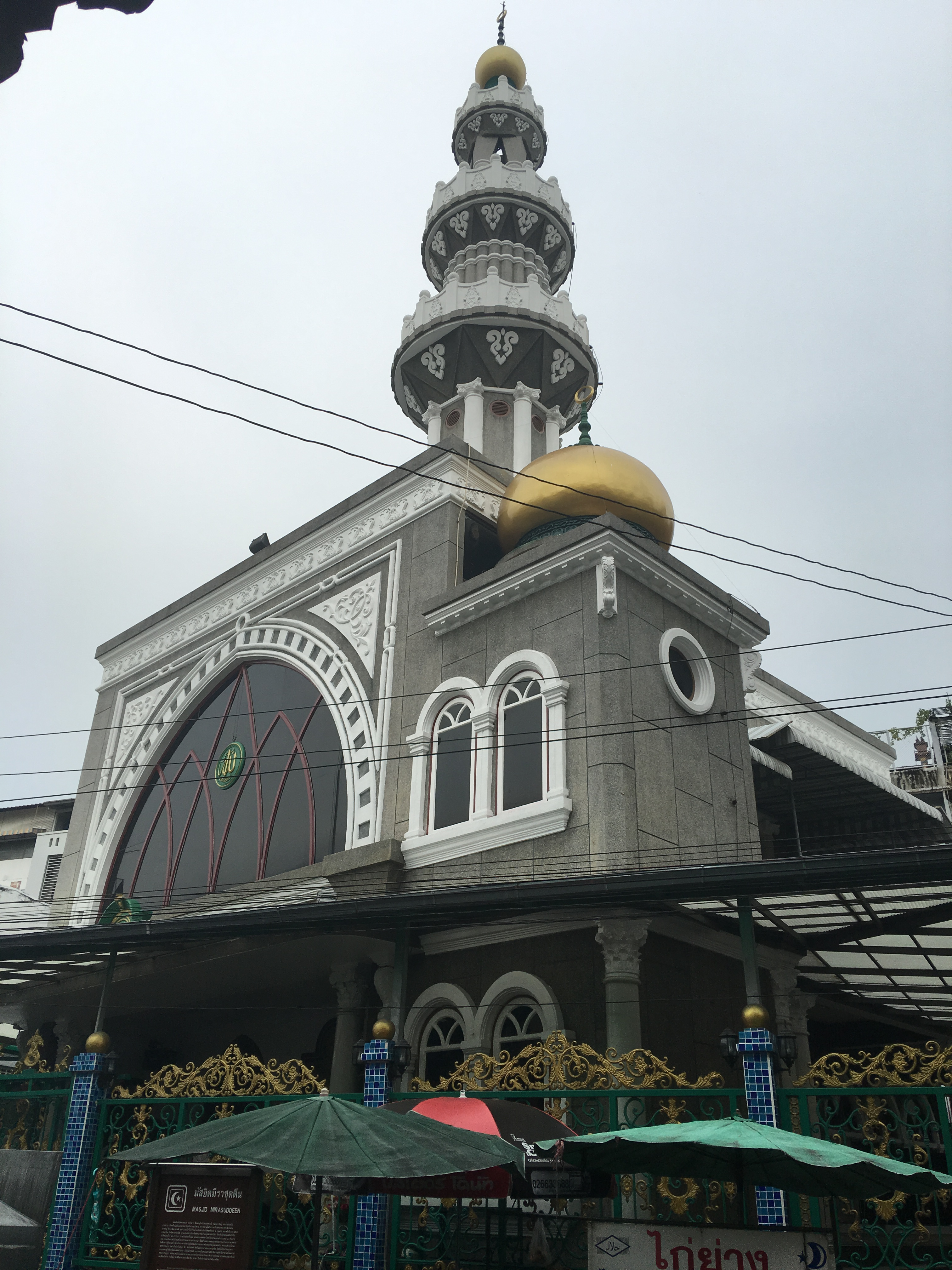 Mirasuddeen Mosque is situated in one of the sidetrack of Silom Road, Bangkok